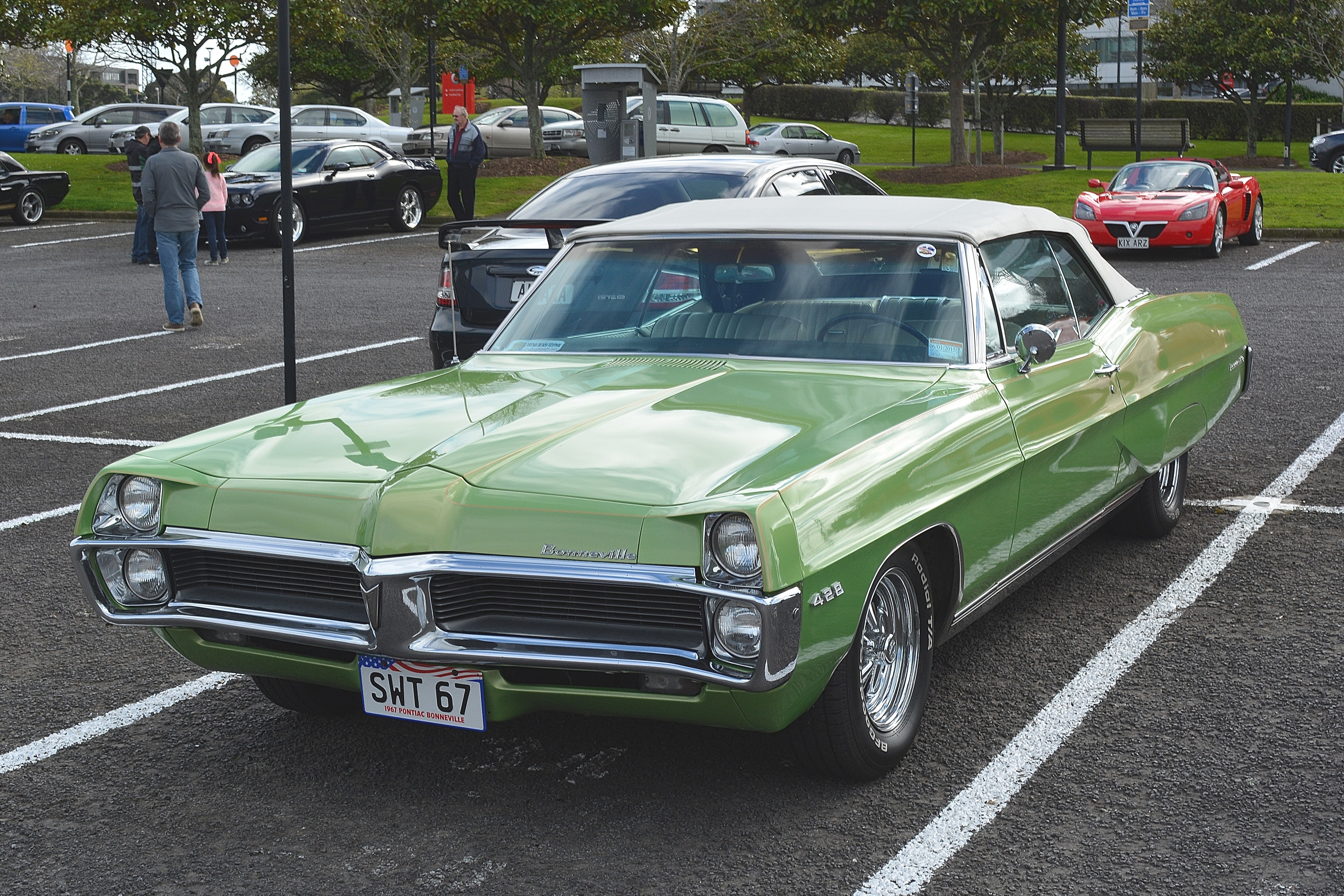 Smales Farm,Northcote.Auckland.New Zealand